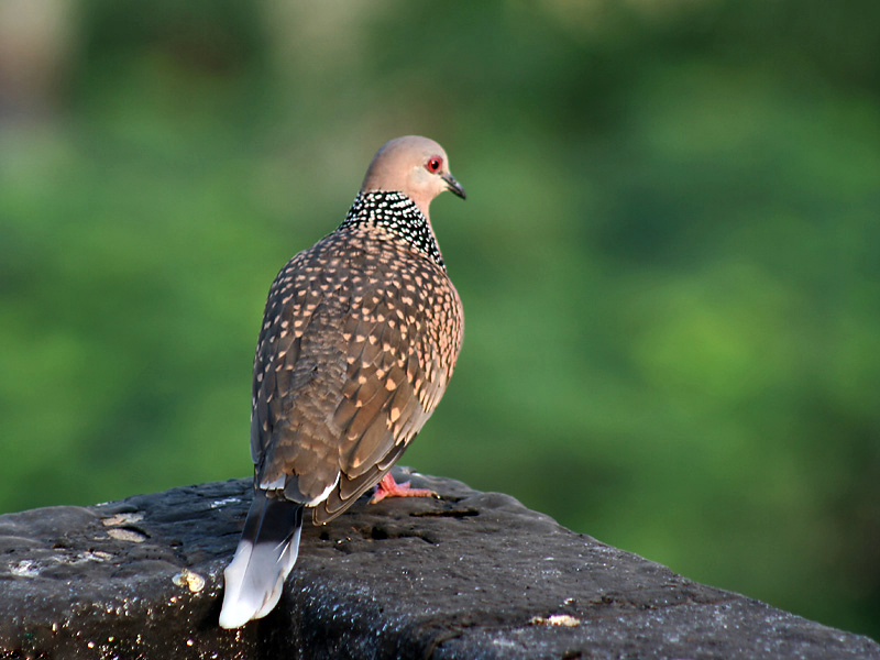 Spotted Dove Streptopelia chinensis in Kolkata, West Bengal, India.